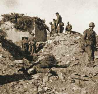 The body of Greek POW sergeant D. Itsios, shot by German officers close to the bunker which he defended, immediately after rendering him military honors. Line of Metaxas, Greece, April 6, 1941.